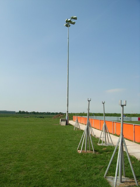 Folding floodlights The floodlight posts at The Airfield (the home of Airbus UK Football Club) fold down to rest on the stands provided. This is a safety measure due to the close proximity of the runway.